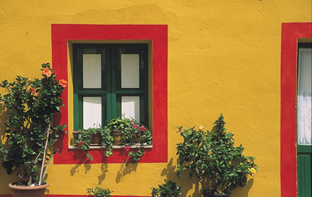 Typical house in the isle of Linosa, Sicily